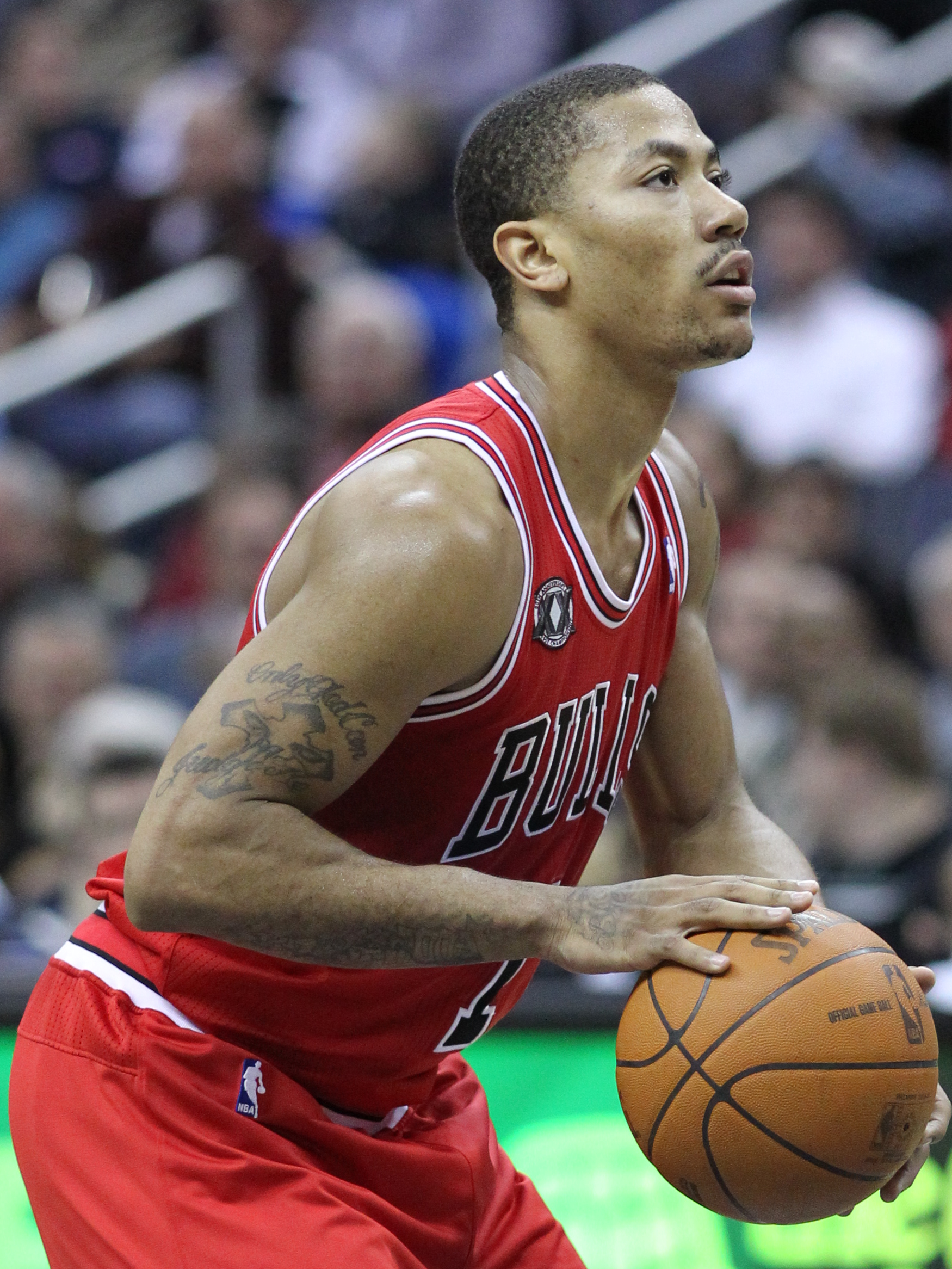 Derrick Rose #1 of the Chicago Bulls at the Verizon Center on February 28, 2011 in Washington, DC.